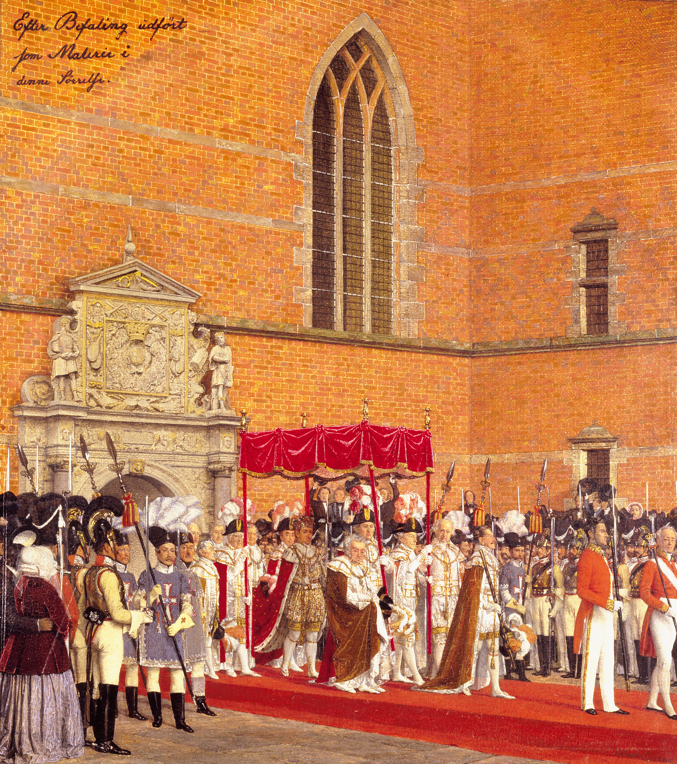 The coronation of Christian VIII in Frederiksborg Palace in 1840, the last such ceremony to take place in Denmark